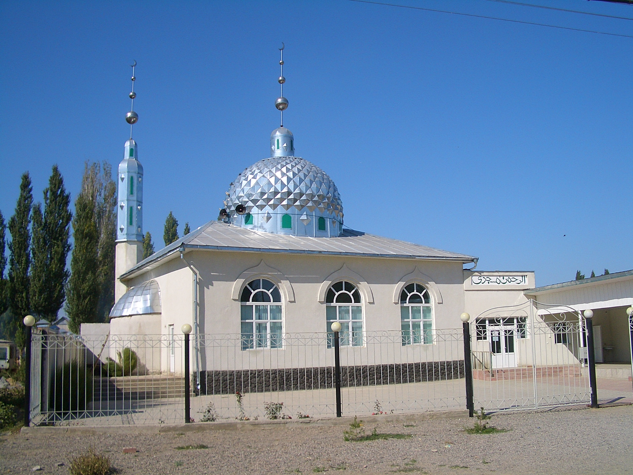 The mosque in Lenin St, Milyanfan village, Kyrgyzstan.